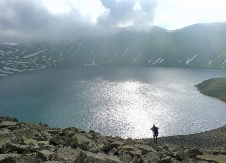 Lake Kelistba